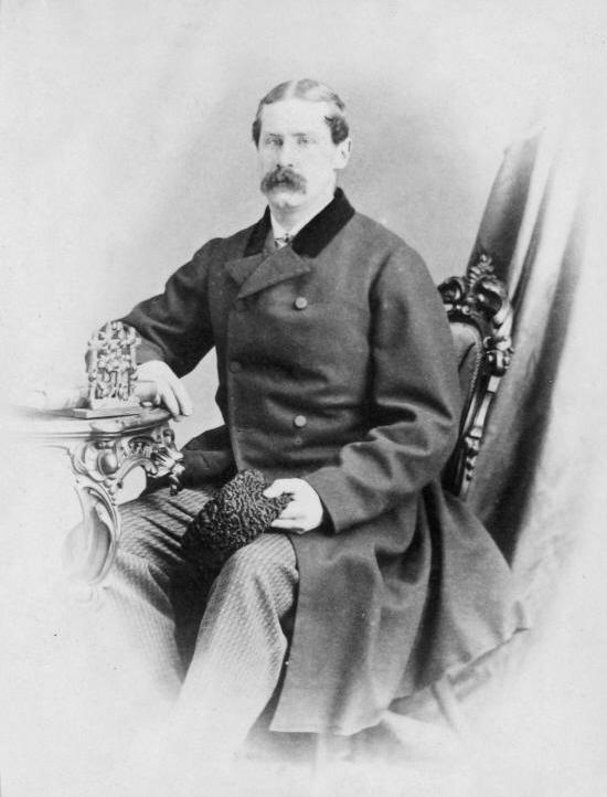 Photograph, Alex Delisle, Montreal, QC, 1865, William Notman (1826-1891), Silver salts on paper mounted on paper - Albumen process - 8.5 x 5.6 cm